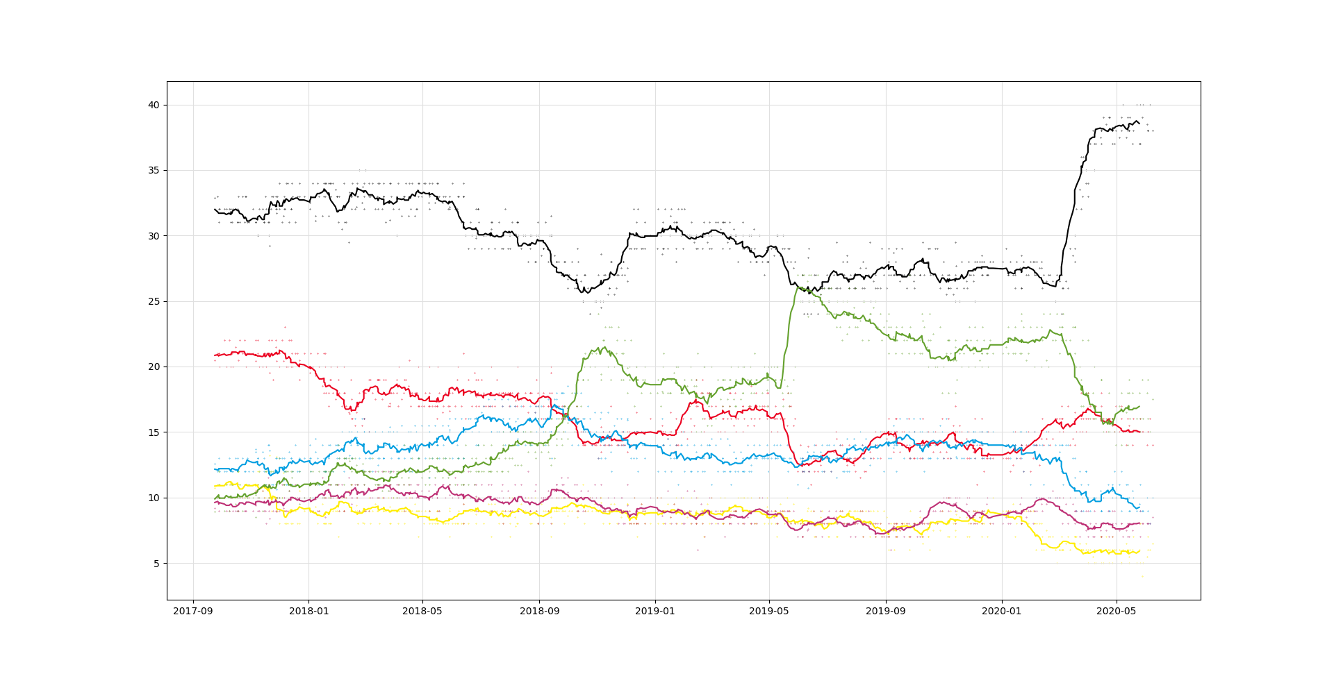 CDU/CSU SPD AfD Grüne FDP Linke